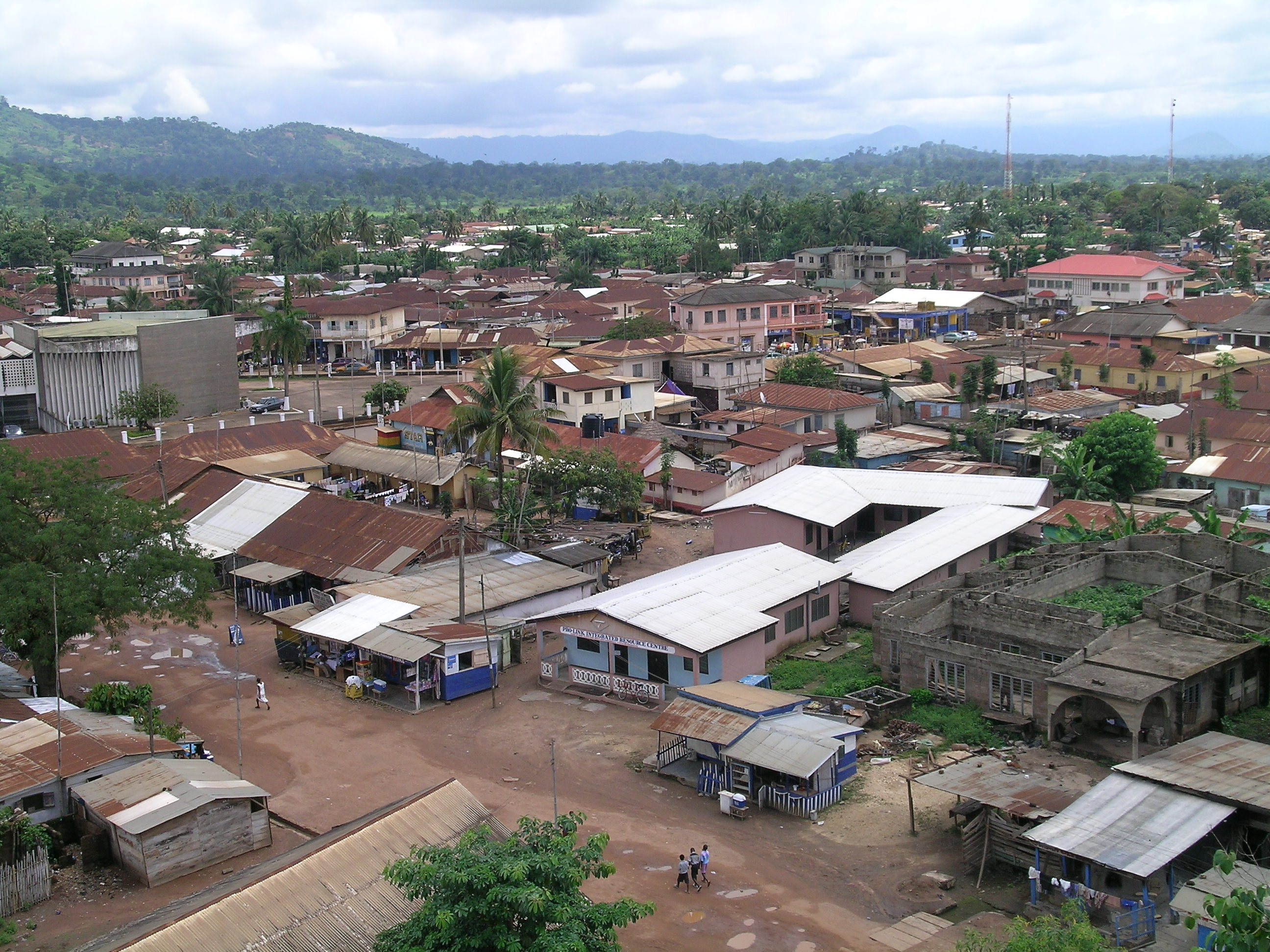 View of the center of Hohoe in Ghana.